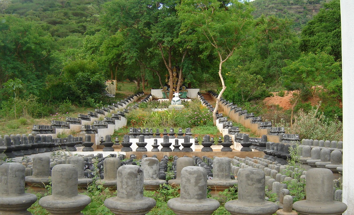 Thousand Lingam Temple, Suruli Falls, Theni District.